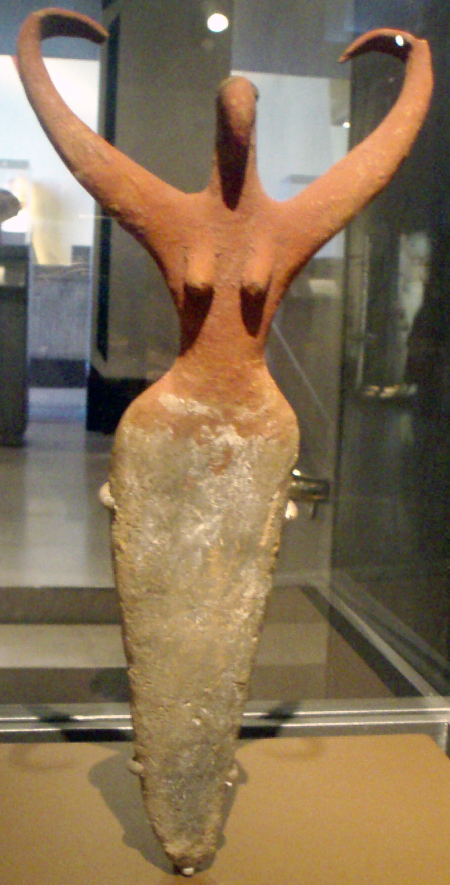 Predynastic female figurine. (see official site )